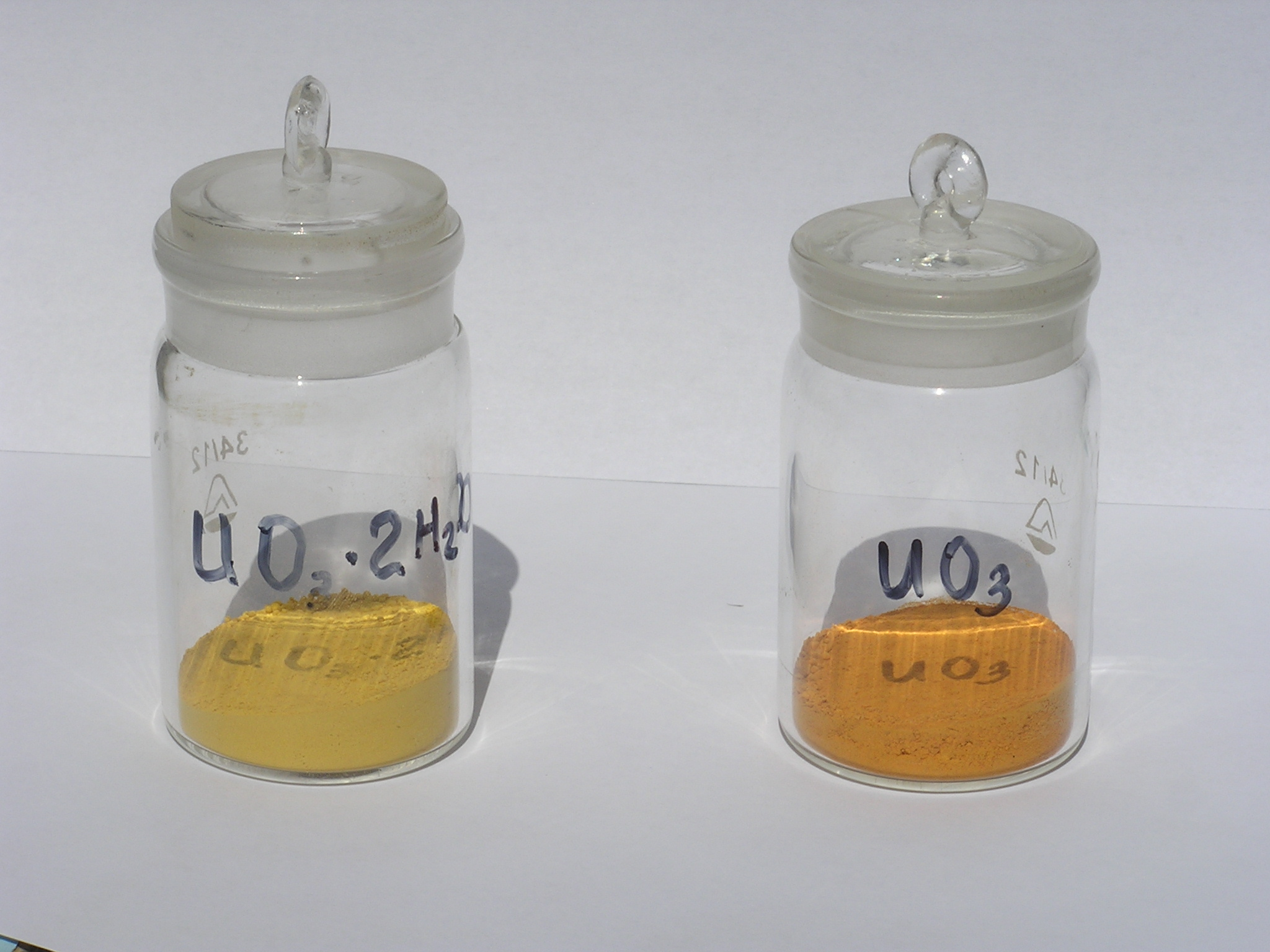 Uranium trioxide (orange) obtained by heating ammonium diuranate to 300°C and its hydrous form (yellow) after three-week exposure to air. Amount: approx. 13 grams each.